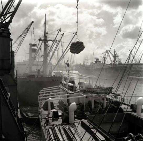 Port of Gothenburg